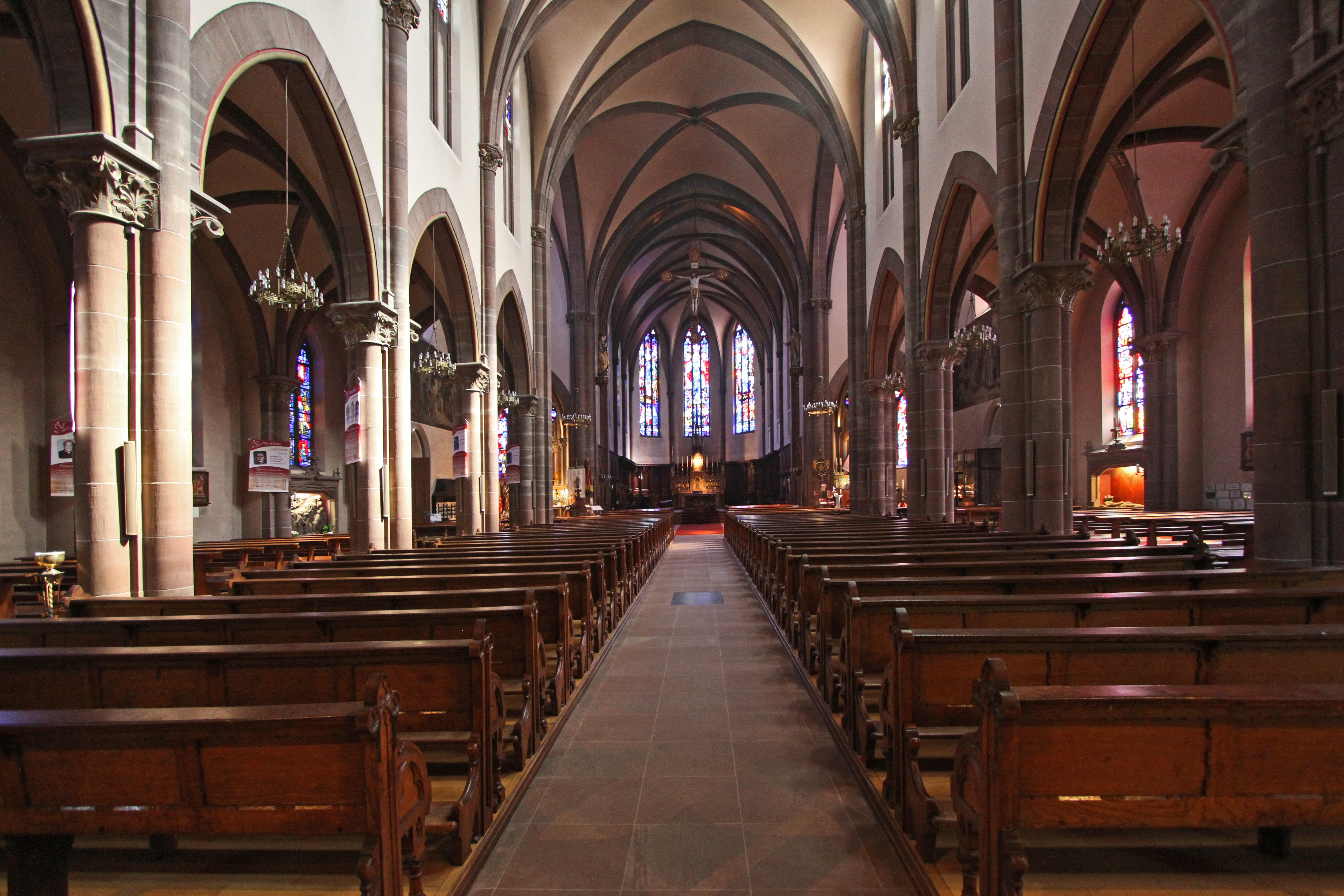 Church of Notre-Dame in Haguenau-Marienthal, interior decoration.